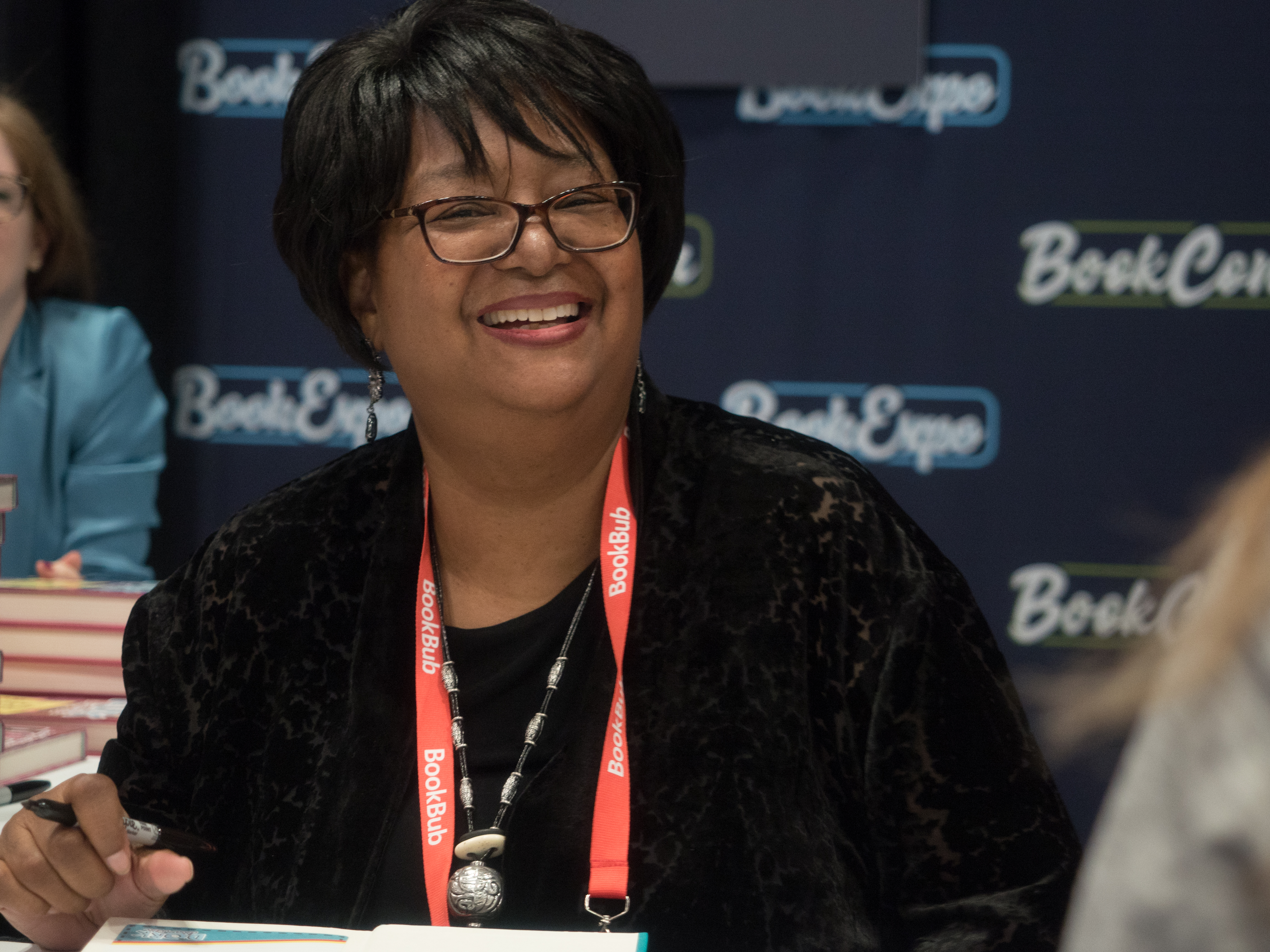 Rachel Renee Russell at BookExpo